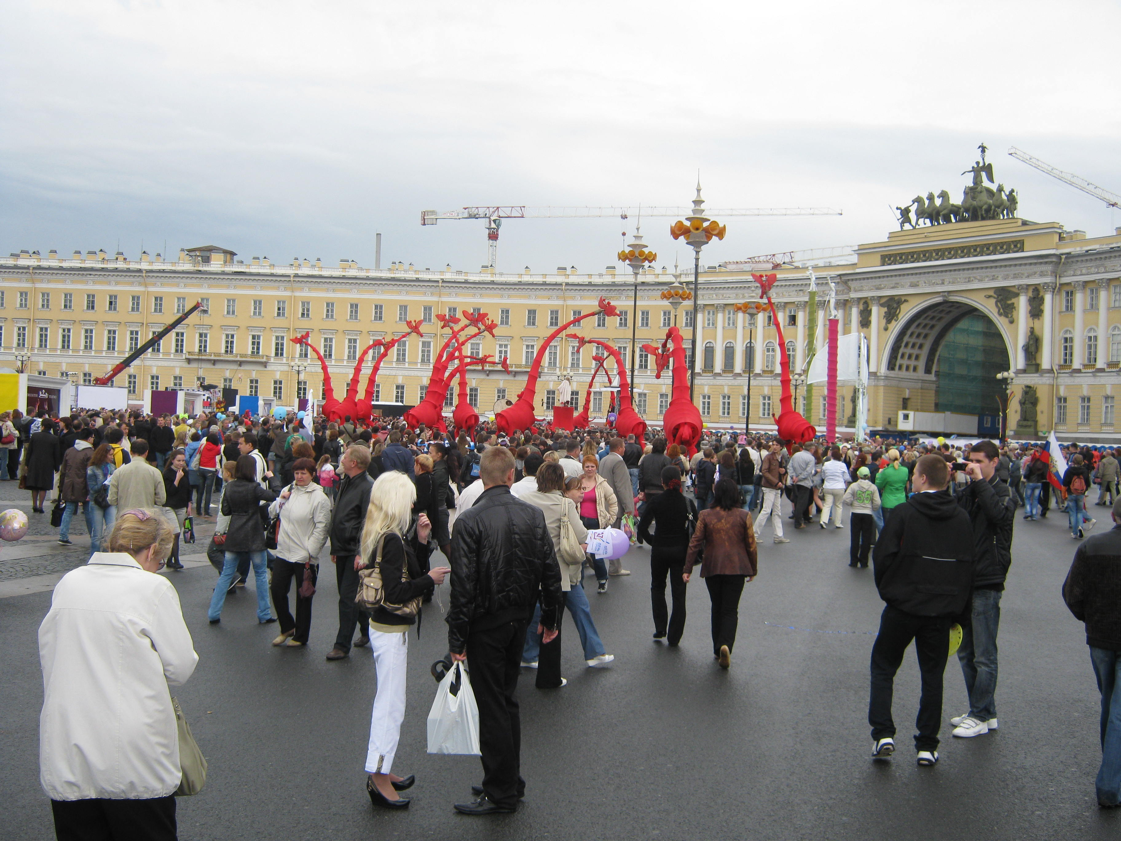 Saint Petersburg (Russia), Palace Square, Day of city of Saint Petersburg, Cirque du Soleil